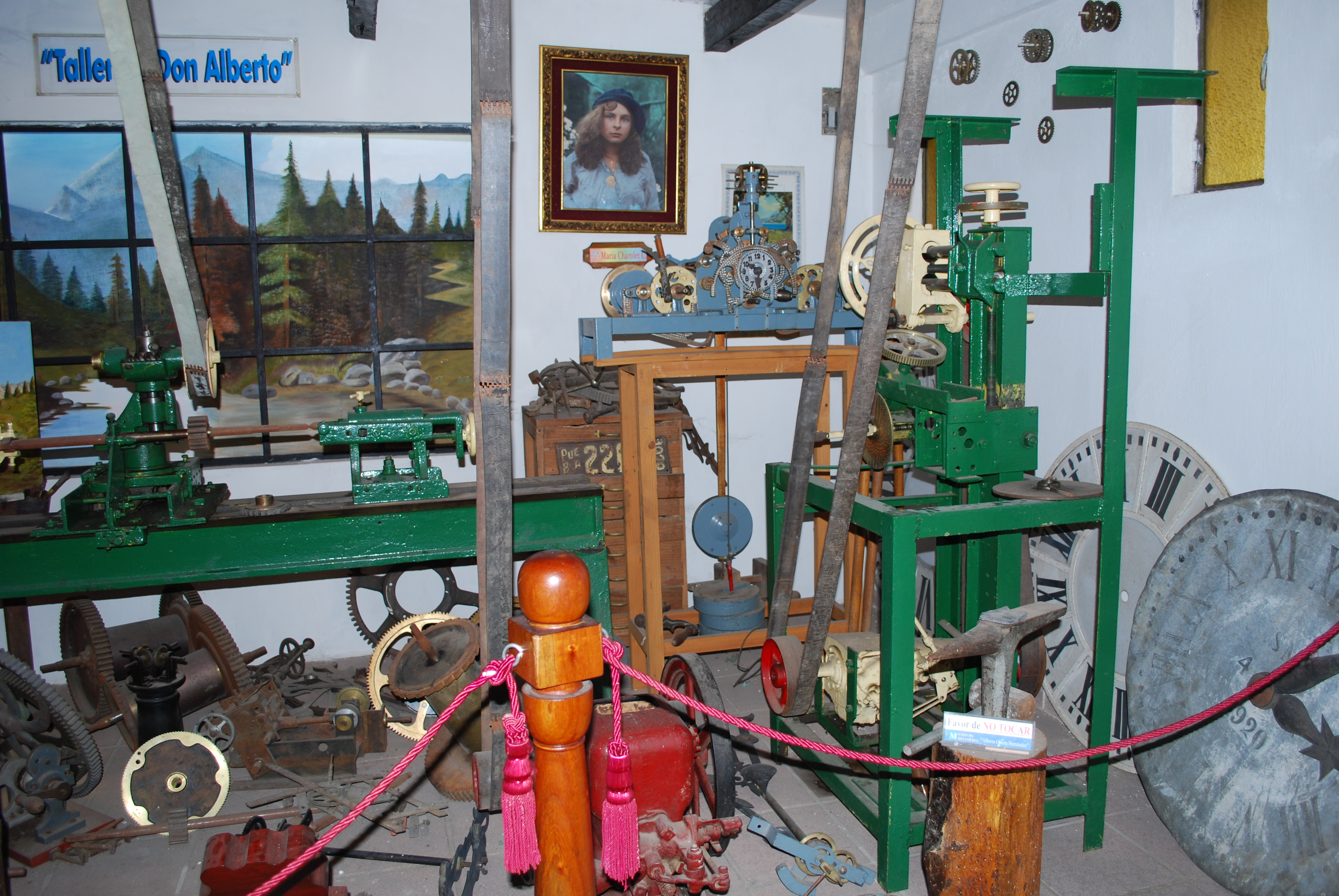 machinery from the workshop of the Centennial Clock company founder at the Clock Museum in Zacatlán, Puebla, Mexico